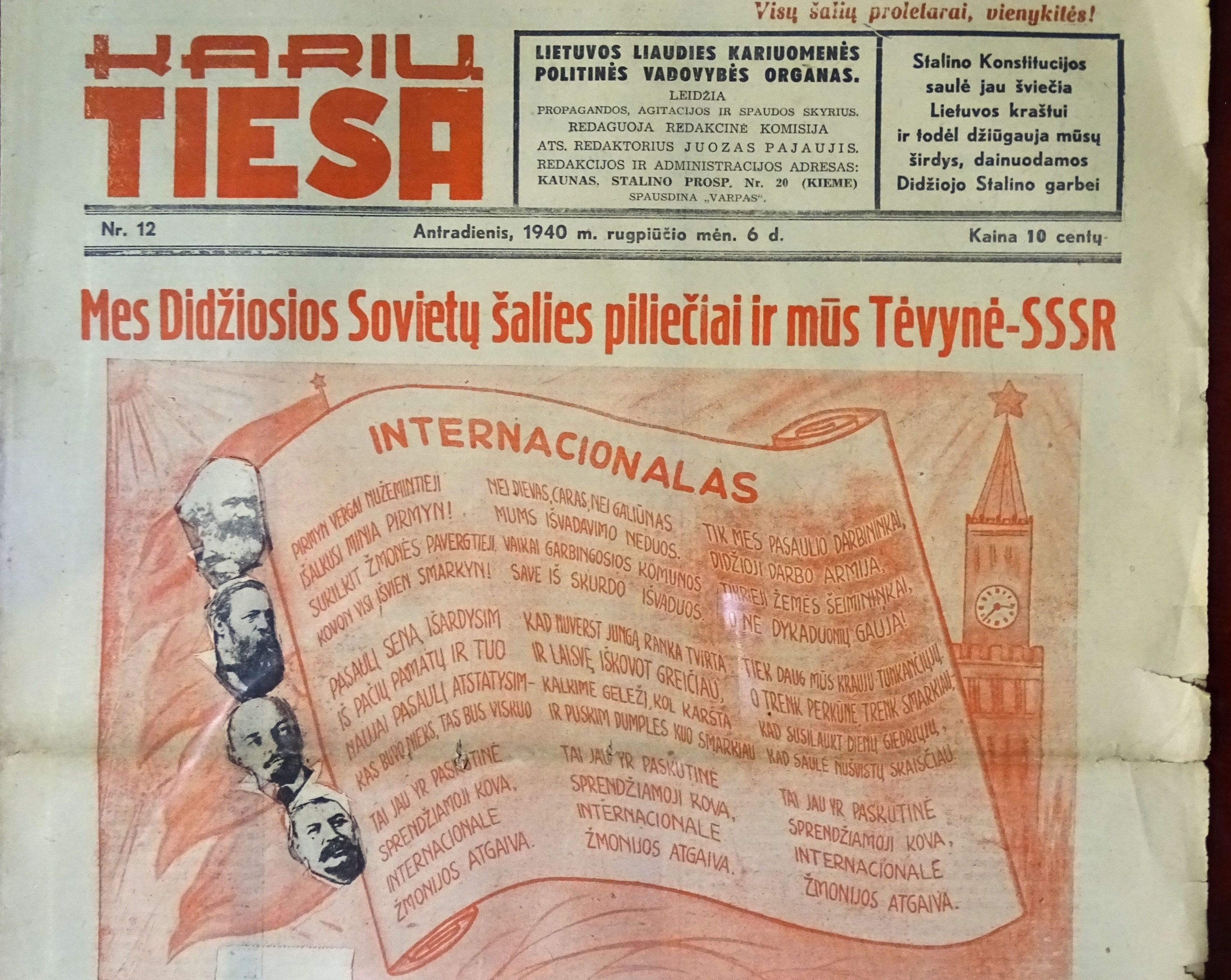 Propaganda News Item on Soviet Takeover of Lithuania - Memorial Museum Adjacent to Ninth Fort - Nazi Genocide Site - Kaunas - Lithuania